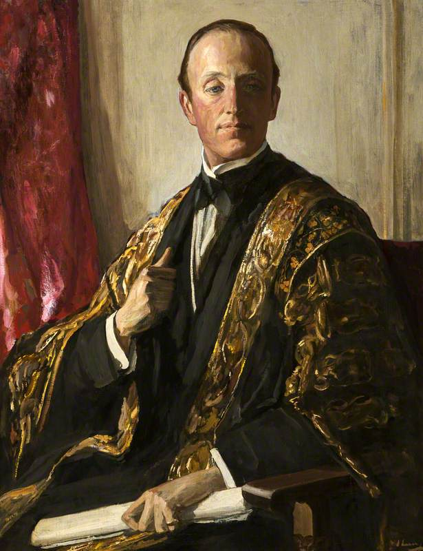 Lavery, John; The Marquess of Londonderry (1878-1949), KG, Chancellor of the Queen's University of Belfast; National Museums Northern Ireland